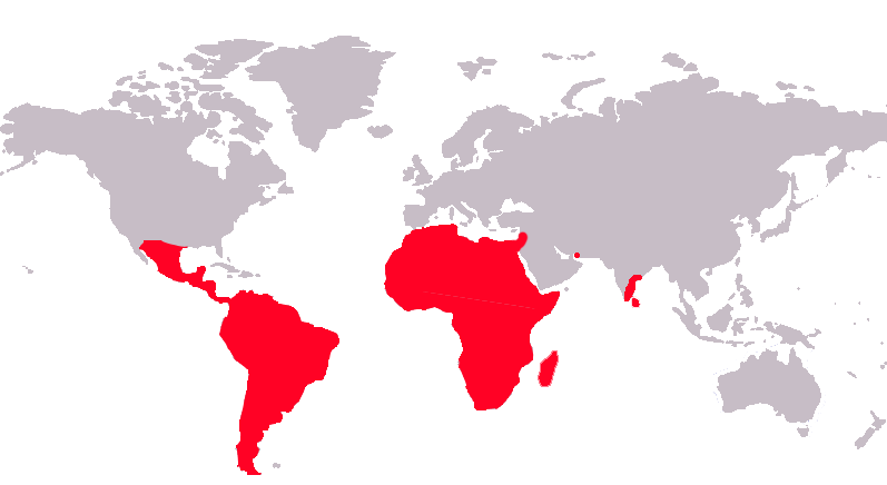 Cichlidae distribution map